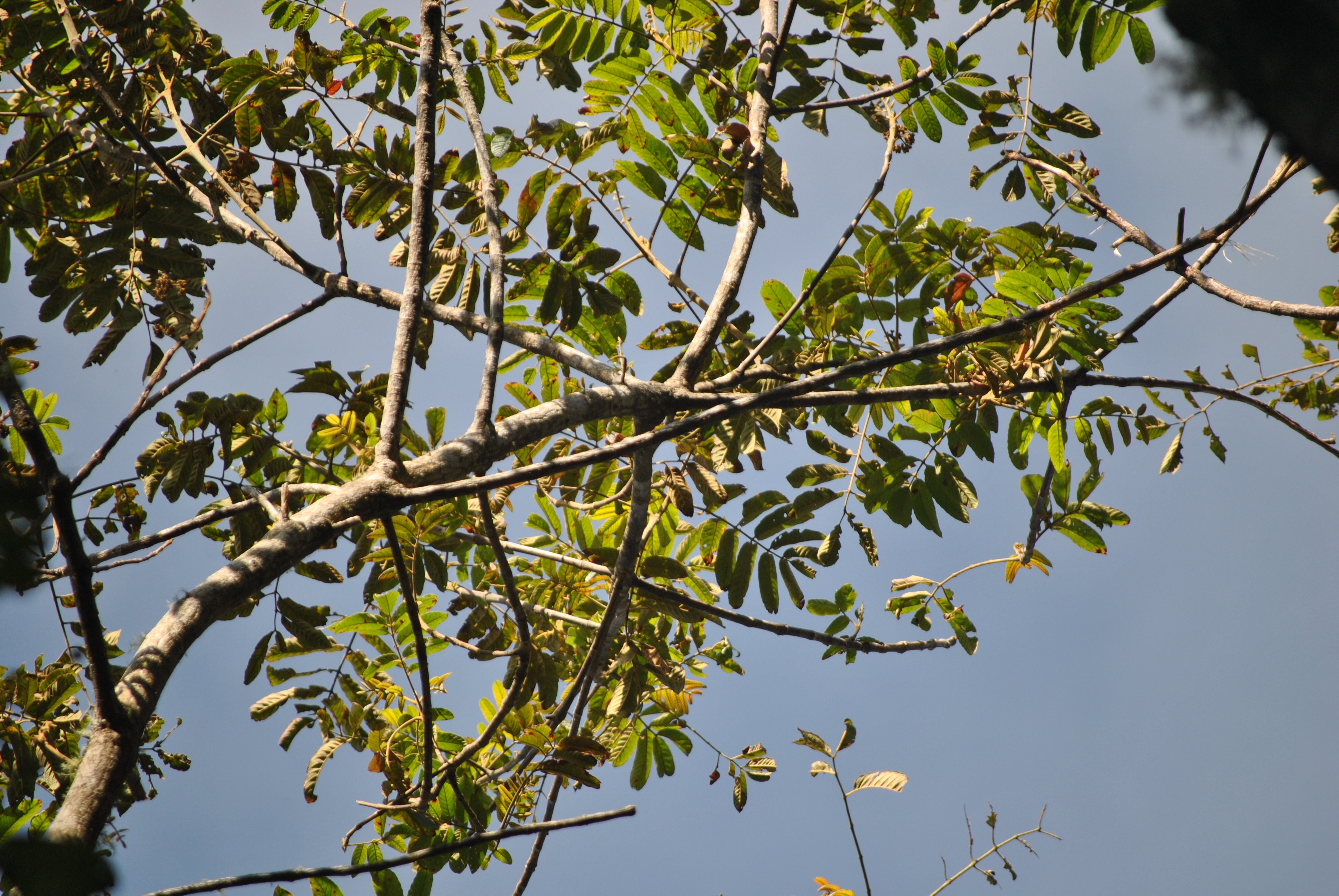 Leaf detail of tree in Sierra de Bahoruco National Park. Local name: Sangre de Gallo, Palo de Cotorra